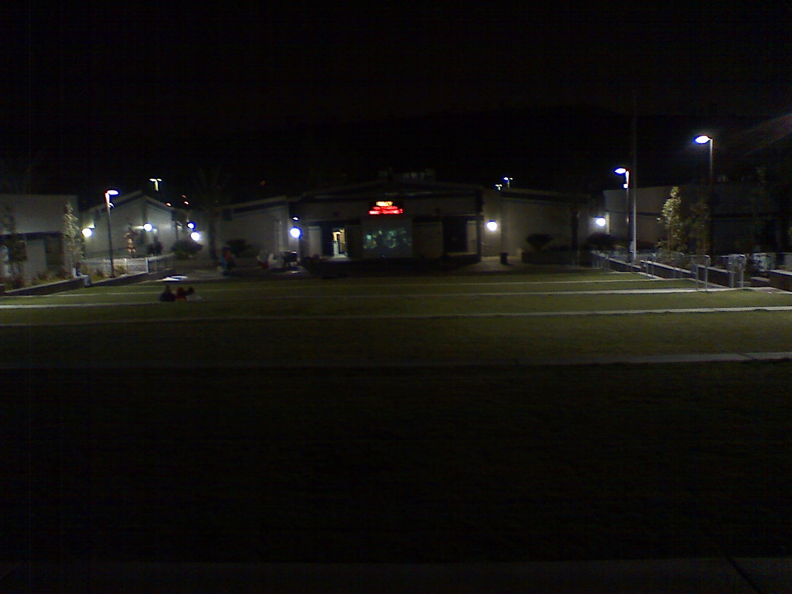 From in front of the Legacy Wall looking down on the Outdoor Stage.